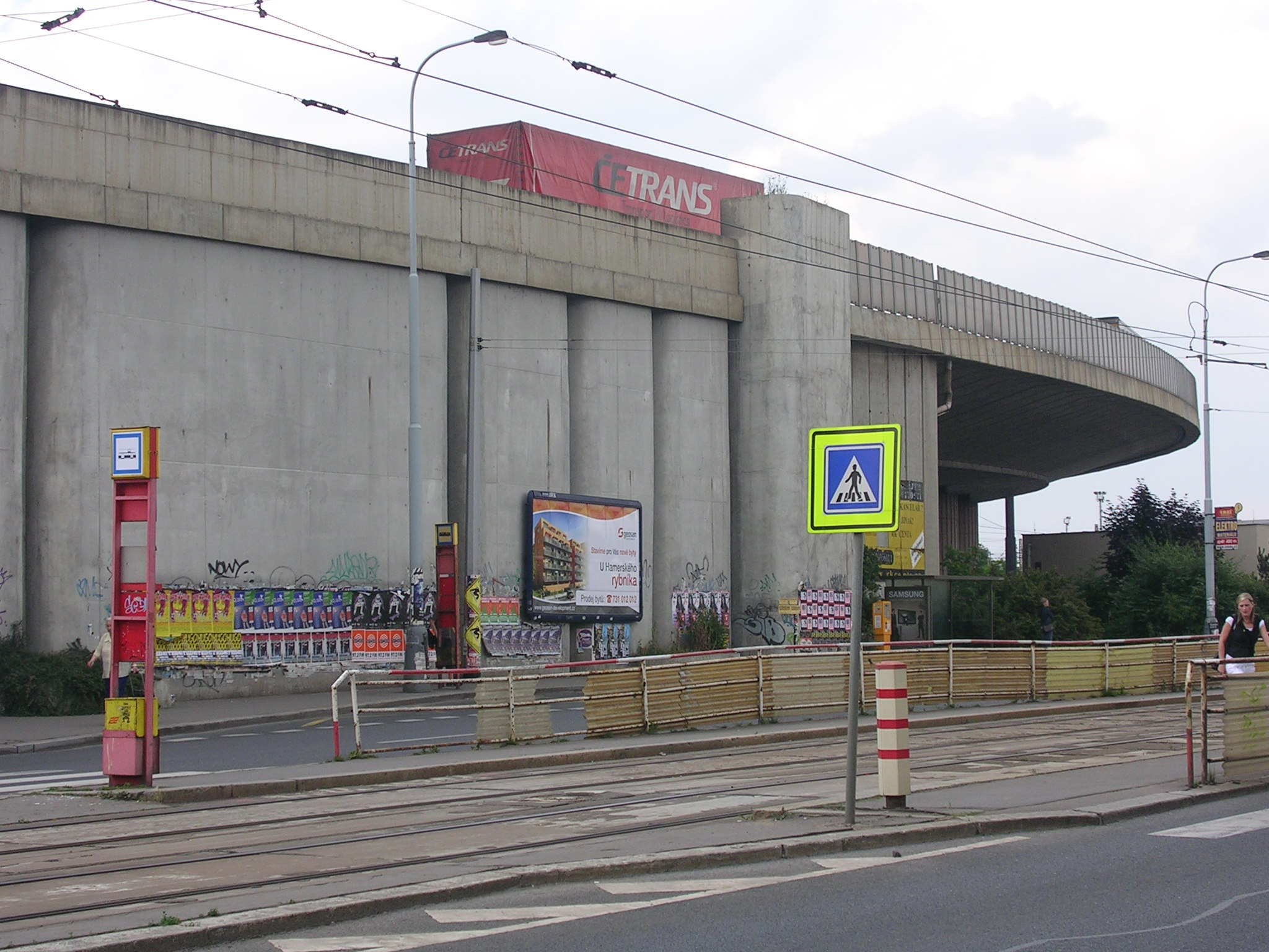 Záběhlice, Prague, the Czech Republic.